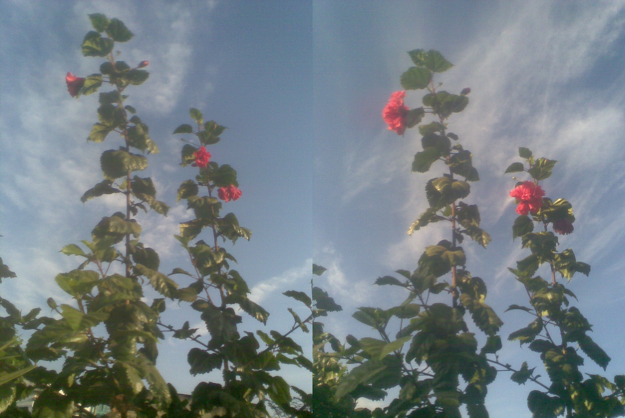 Hibiscus rosa-sinensis